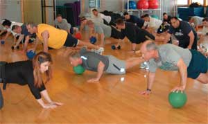 Captain Eric Kaniut, Commodore David Taylor and Rear Admiral Brian Prindle work out